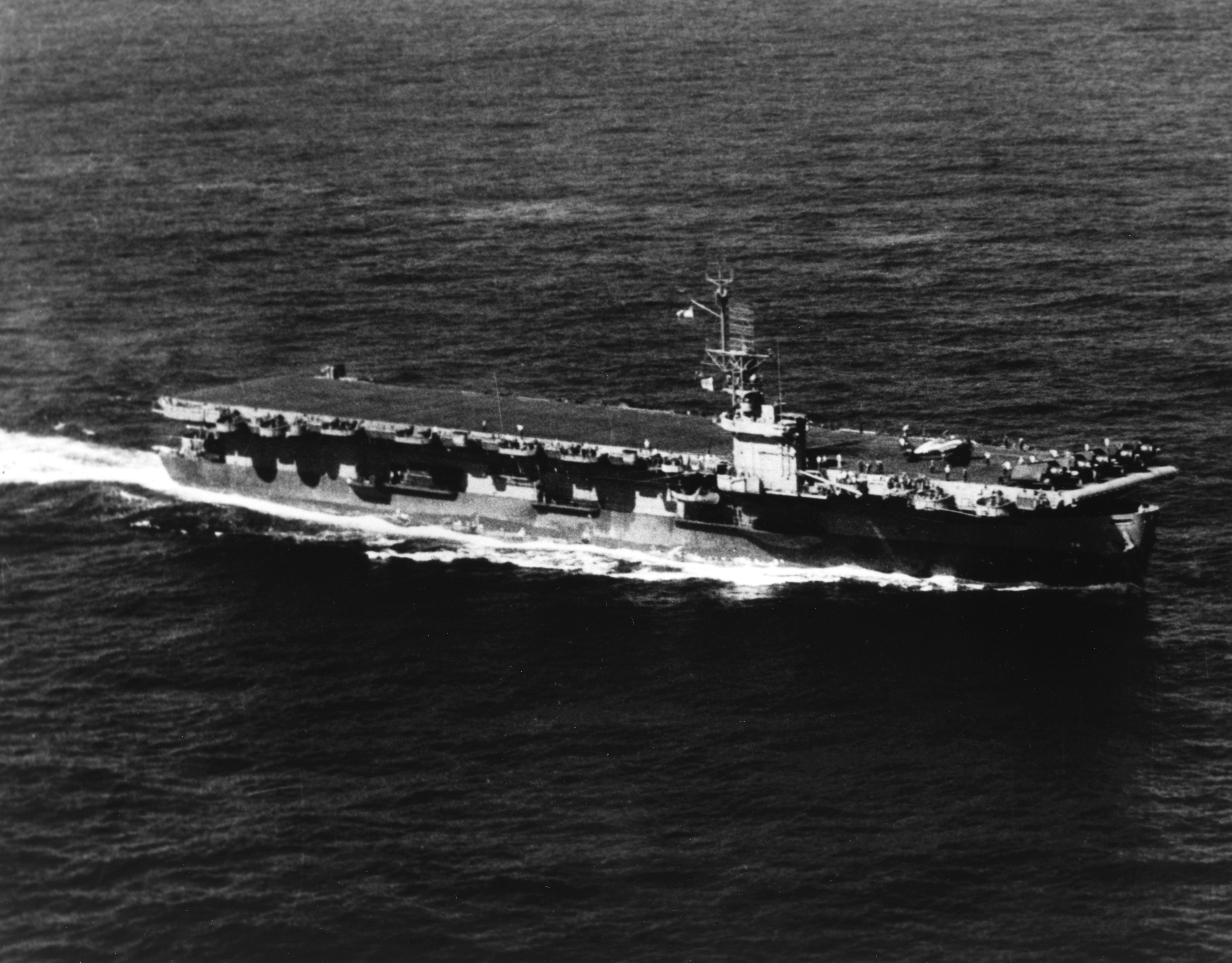 The U.S. Navy escort carrier USS Nehenta Bay (CVE-74) underway at sea, in 1944.